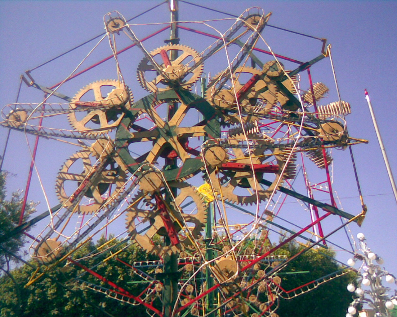 This firework incorporates many features such as the jets at the very back (recognised by the amount of small paper tubes aligned next to each other), a whole set of gears, a chain with colour jets attached to it, and sliders. the whole chain slides on the black iron rods (with yellow ends) at the very edges of the firework.